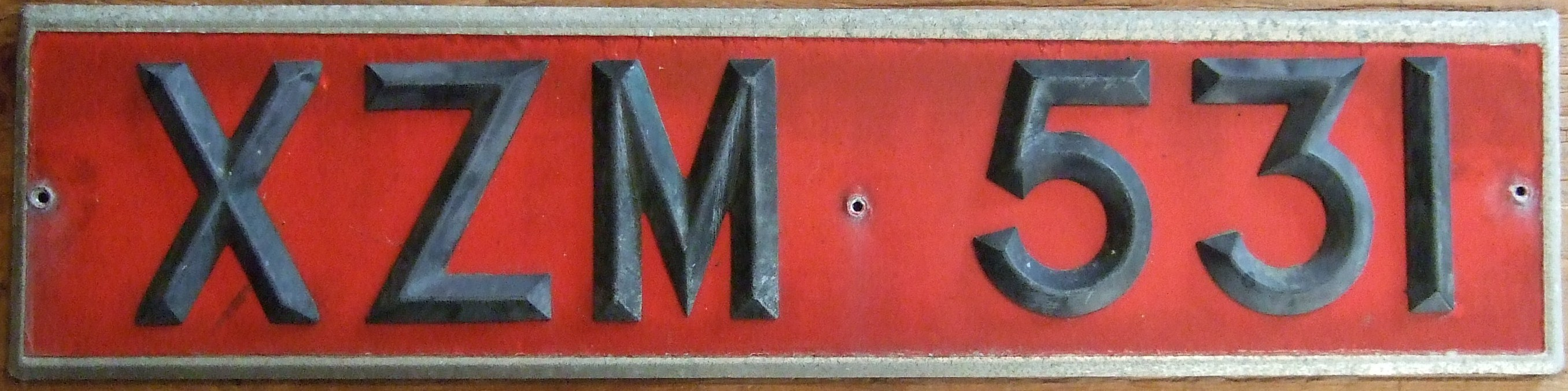 Late 1960's style black on reflective red Irish license plate. This is a rear plate, the front plates were black on white.